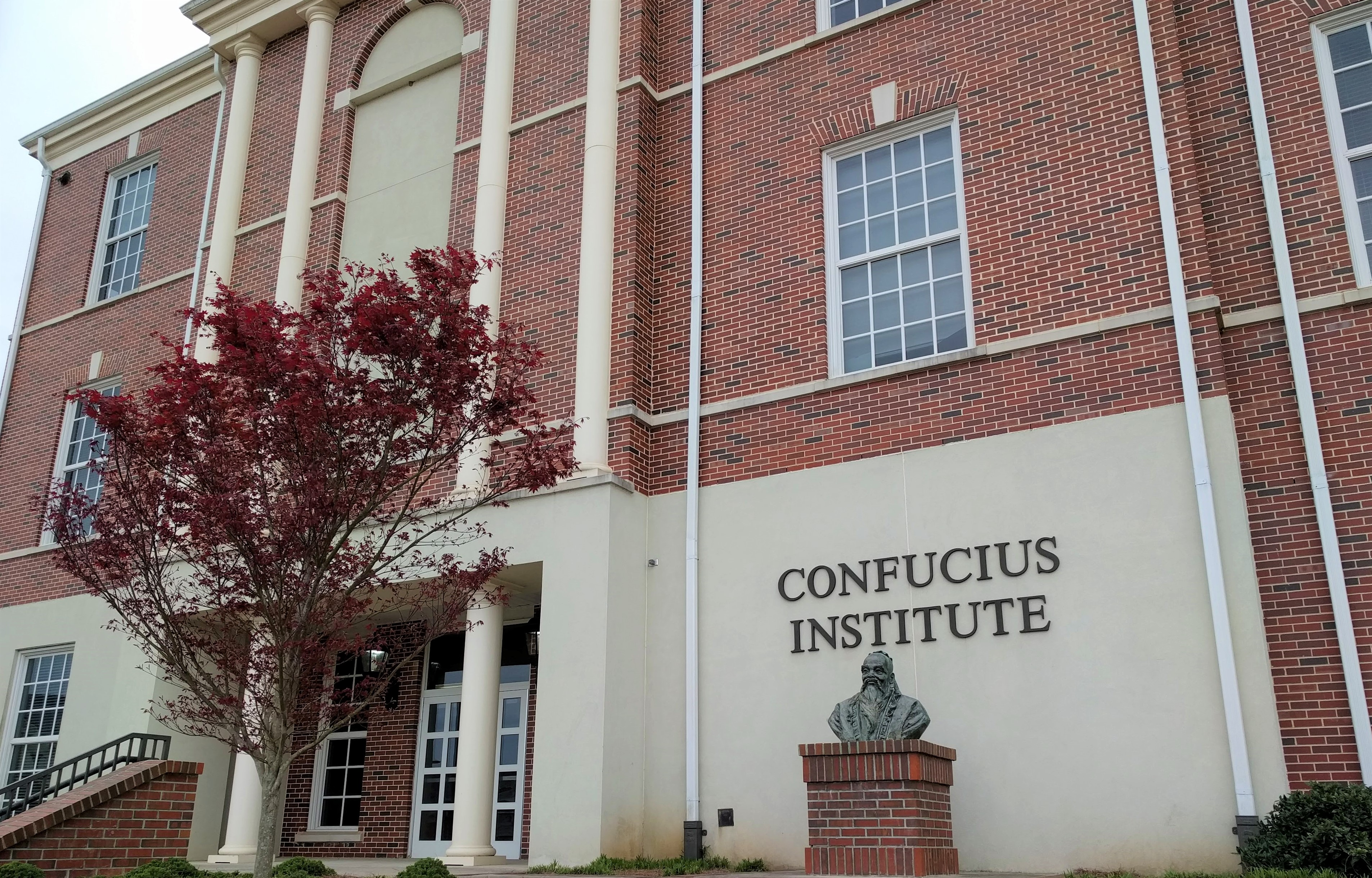 View of the Confucius Institute building on the Troy University campus.